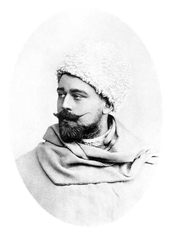 Nicolas Nicolaïevitch, 7th Duke of Leuchtenberg (17 October 1868, Geneva - 2 March 1928)